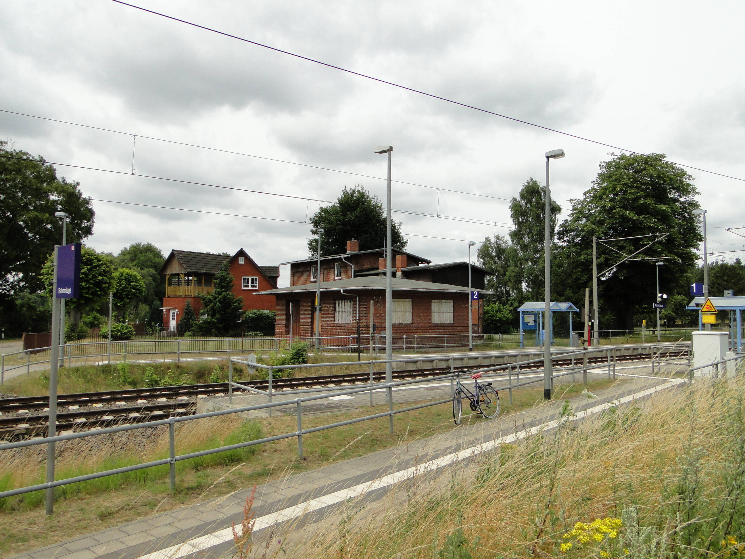 Train station Building in Kirch Jesar, district Ludwigslust-Parchim, Mecklenburg-Vorpommern, Germany